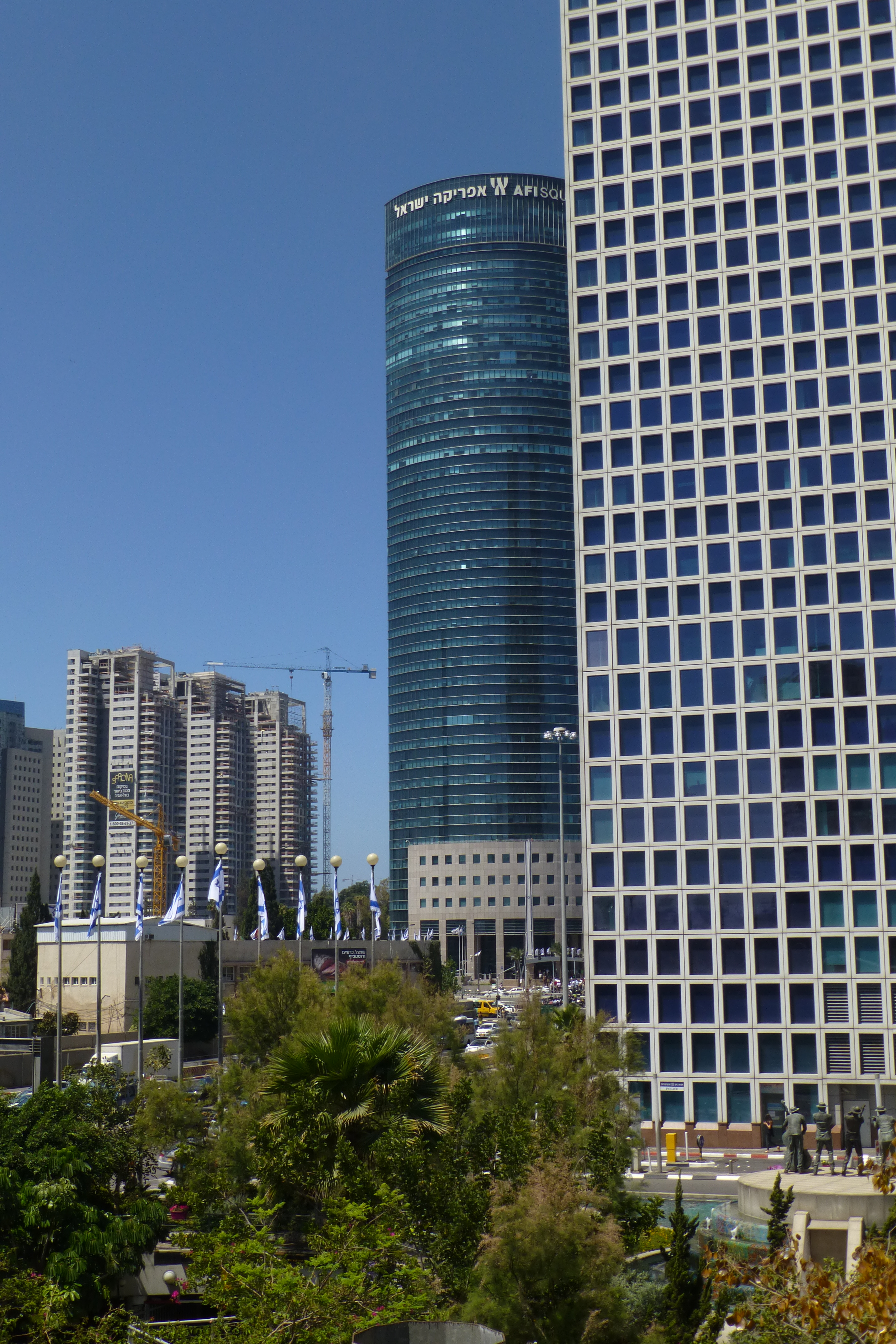 Azriely Towers